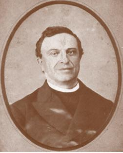 Francesco Tornabene, 1813-1897, Professor of Botany and Director of Horto botanico Regiae Universitatis studiorum Catinae, University of Catania.